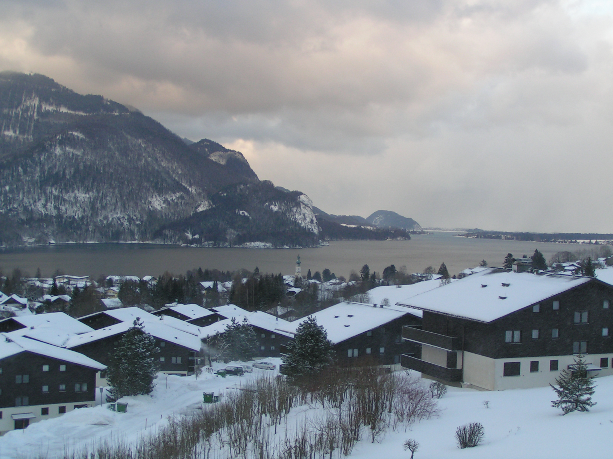 Sankt Gilgen on 14 February 2005